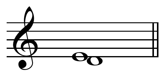 Major second on D. Created by Hyacinth (talk) 01:47, 20 March 2011 (UTC) using Sibelius 5.